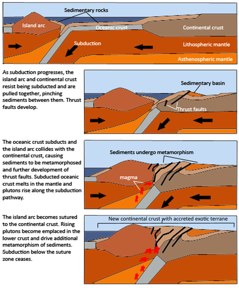 Possible sequence of an accretionary event involving an island arc and a continental landmass.